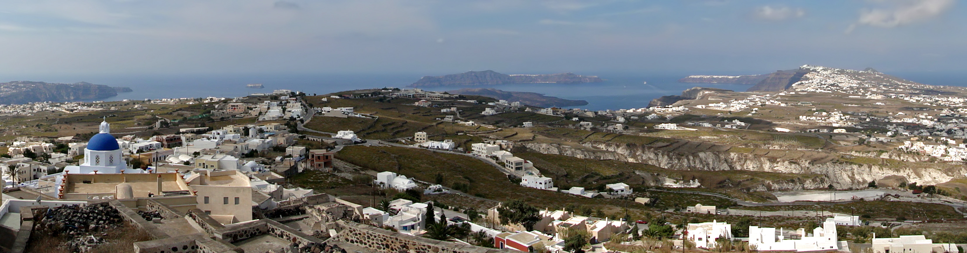 View of Santorini from Pyrgos, Greece